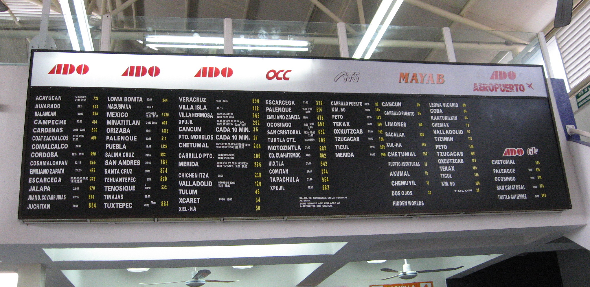 Bus timetable in Mexico showing times and prices